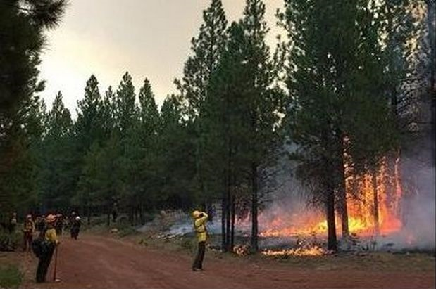 Burnout operation during 2017 Milli Fire near Sister, Oregon